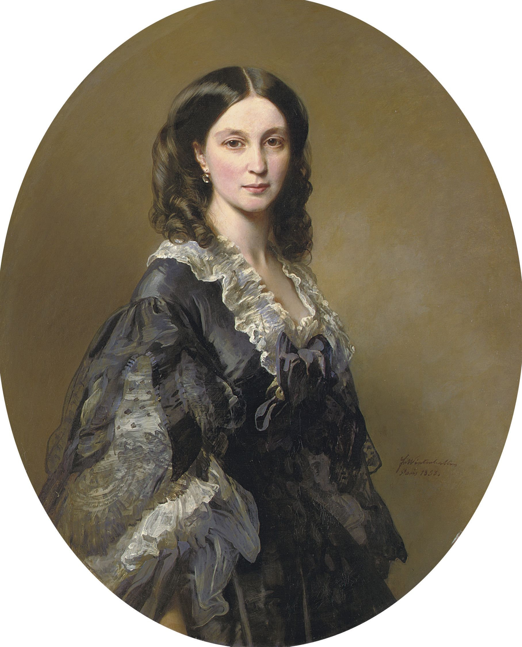 Portrait of Princess Elizaveta Alexandrovna Tchernicheva (1826-1902) wife of Prince Vladimir Ivanovich Bariatinsky